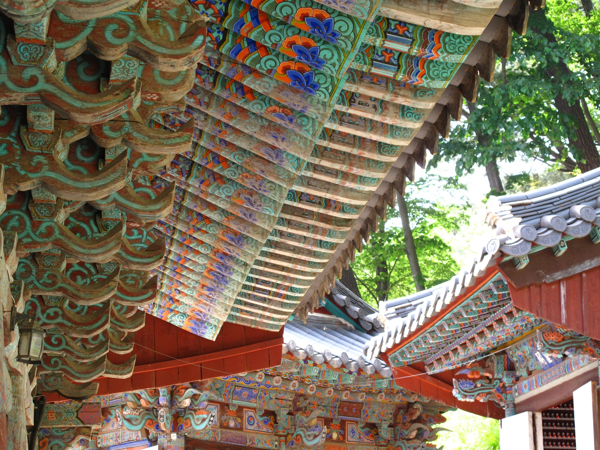 Roof edge at Pagyesa Temple complex, Palgong Mountain, near Daegu, South Korea